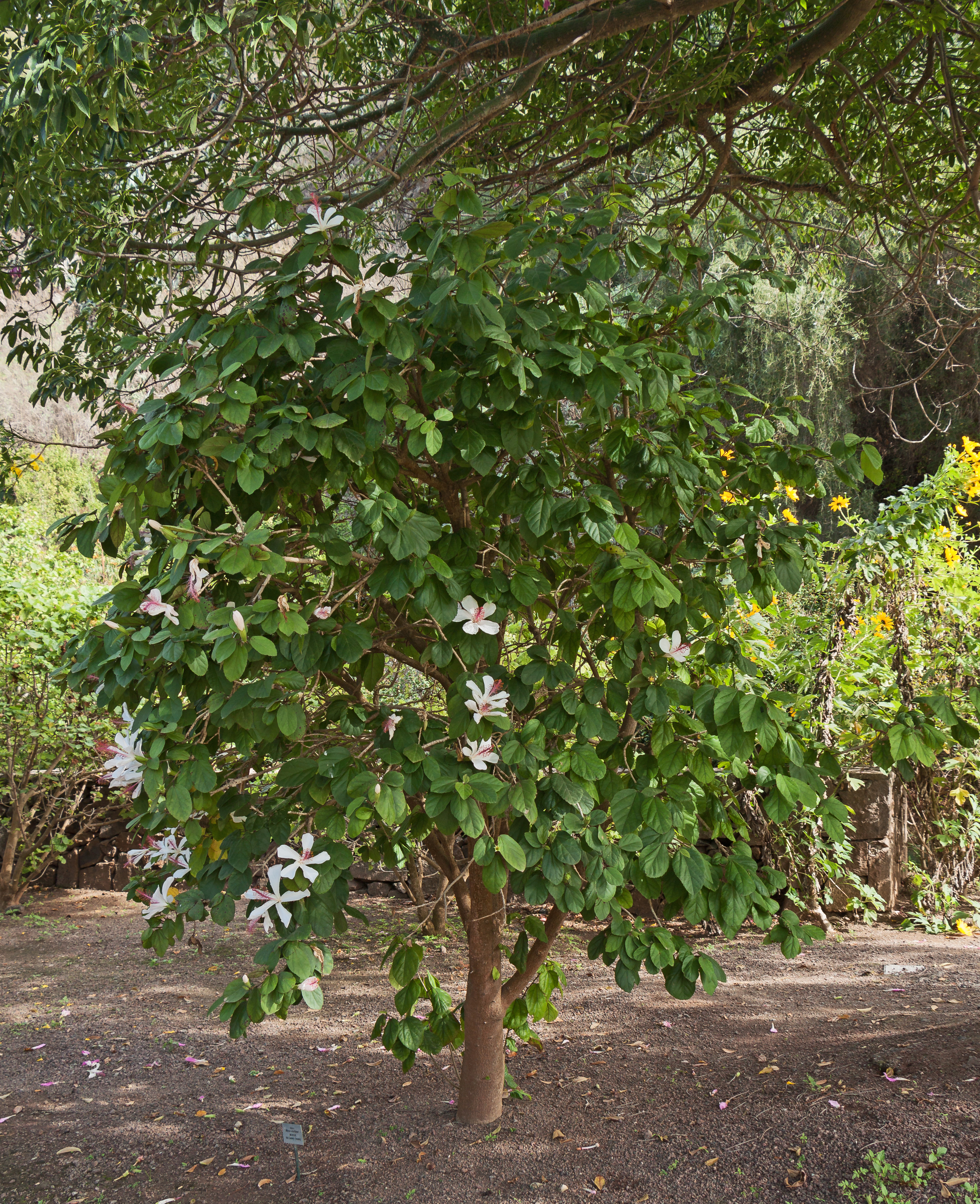 Hibiscus arnottianus A. Gray, White Rosemallow; Habitus; Jardín Botánico Canario Viera y Clavijo, Gran Canaria, Canary Islands, Spain.